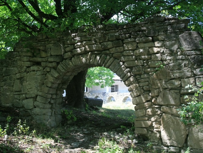 Medieval ruins at Cheremi, Kakheti, Georgia